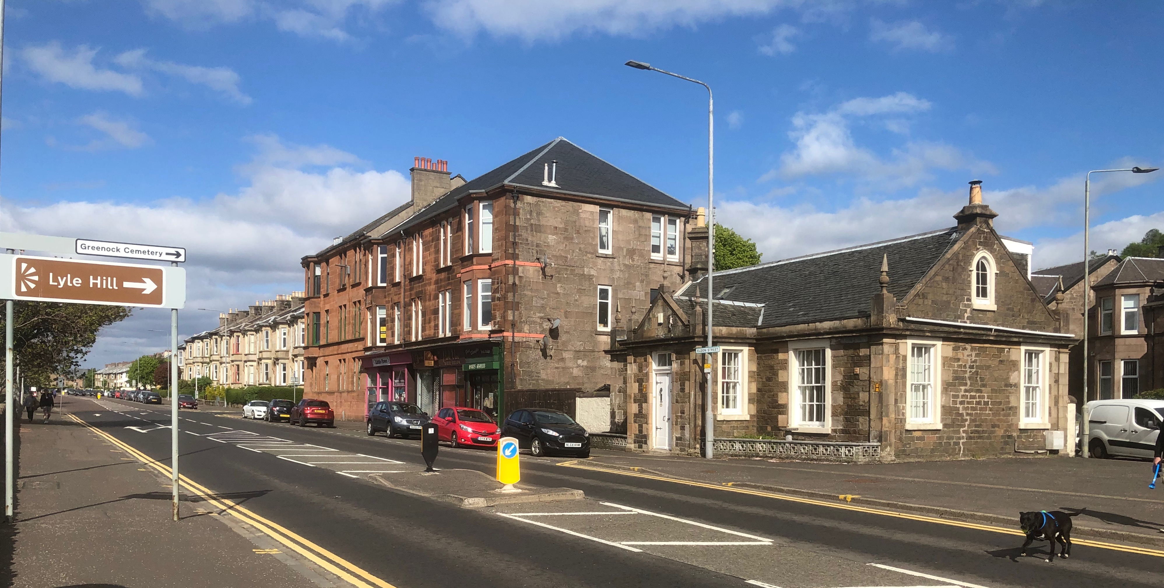 Tourist road sign in Eldon Street, Greenock, with scenic viewpoint symbol and arrow directing right turn into Lyle Road to reach Lyle Hill. The sign is across from the old toll house at the junction between Eldon Street and Newark Street.